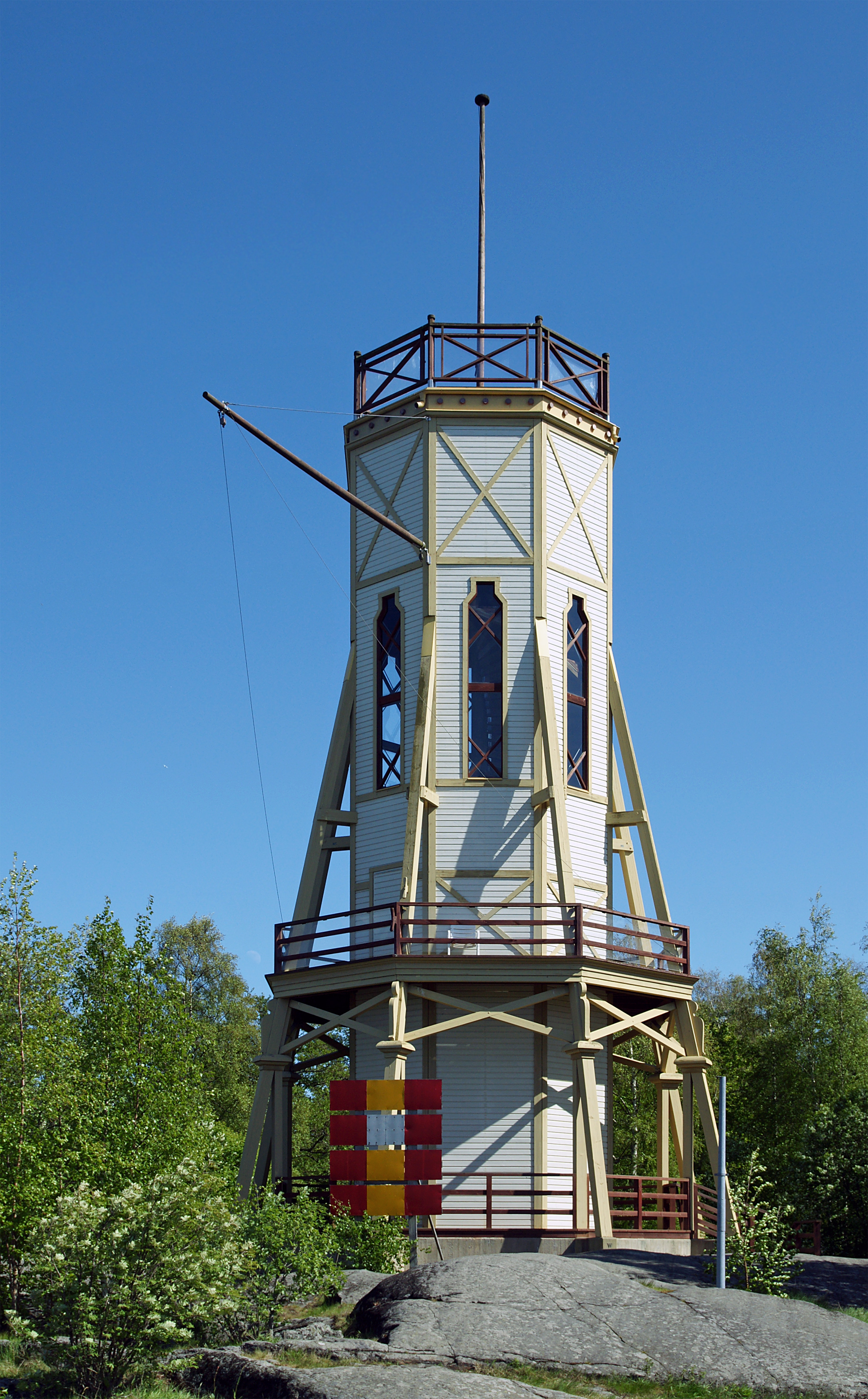 Kiikartorni observation tower in Rauma, Finland.